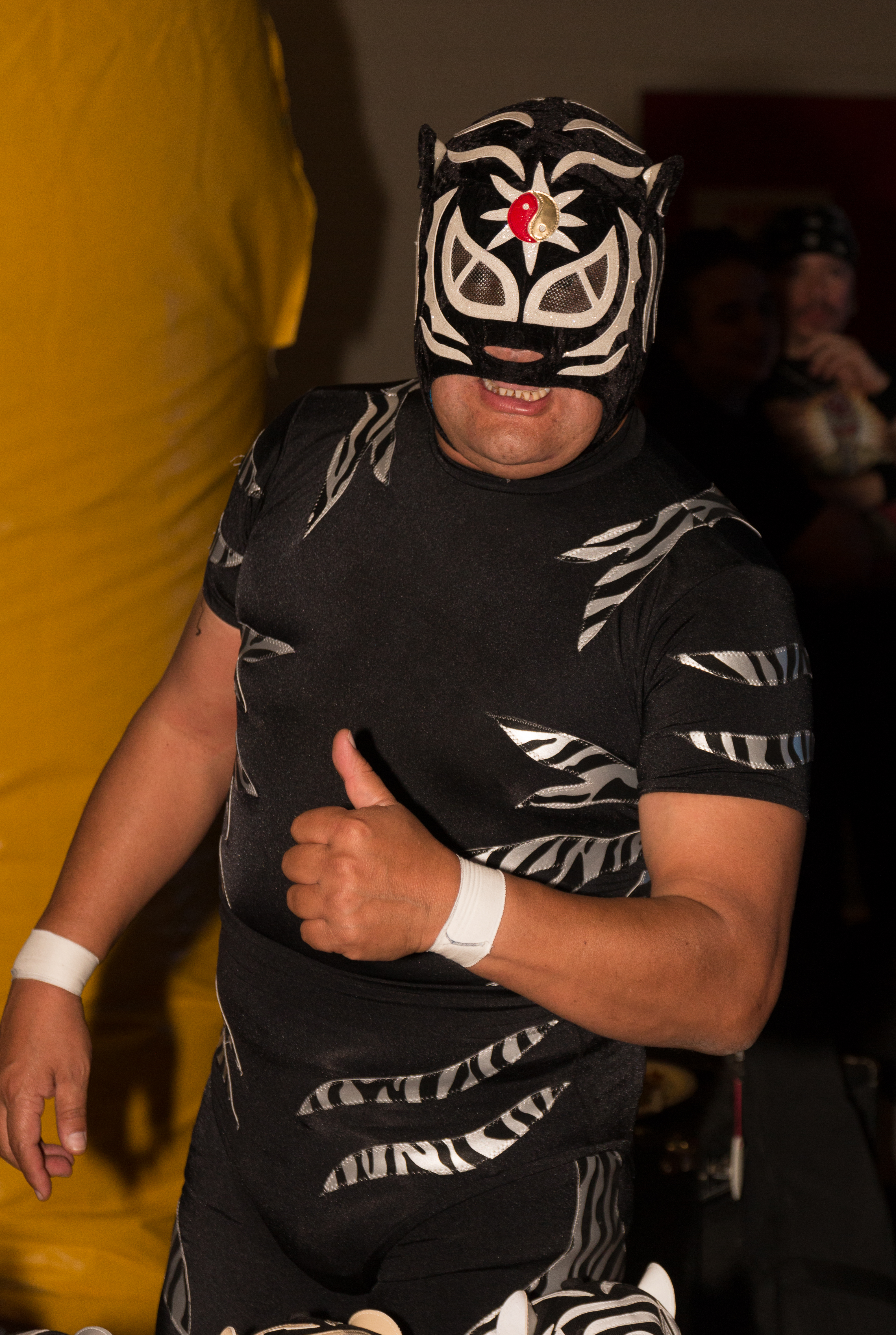 Independent wrestler El Pantera at a LuchaTO show at Variety Village in Toronto